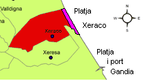 Xeraco Beach location inside Xeraco township